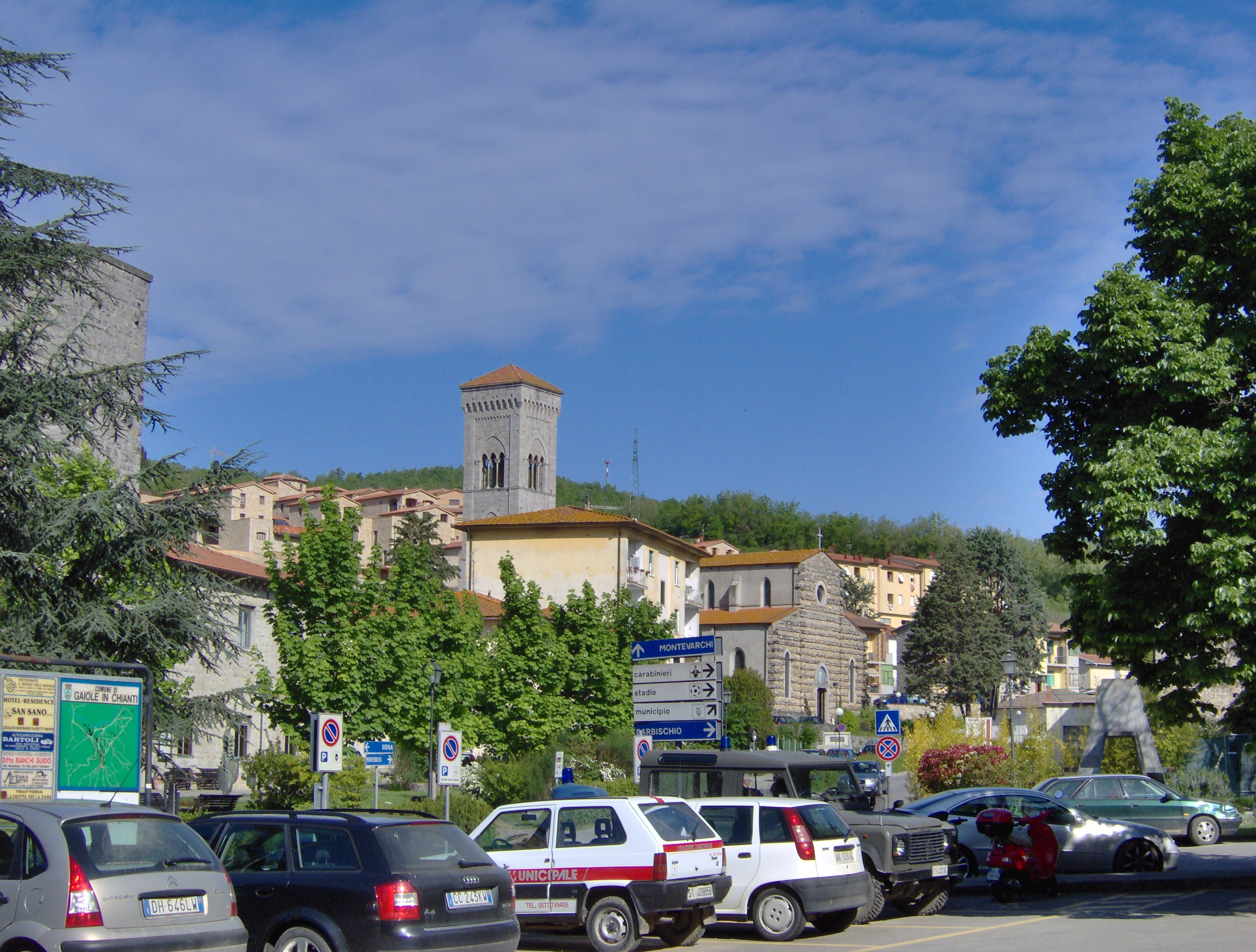 View on Gaiole in Chianti, Tuscany, Italy